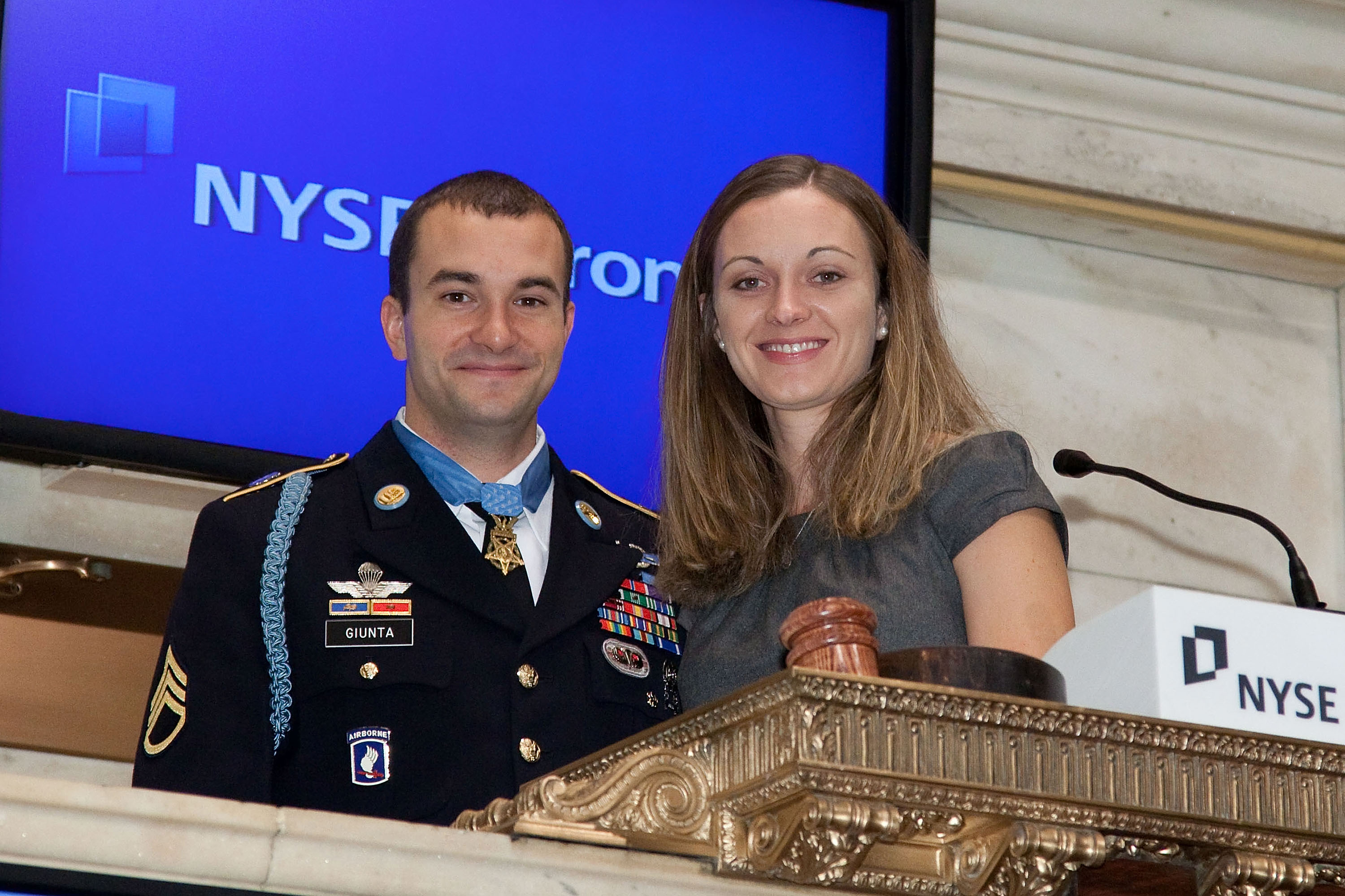 NEW YORK, NY - NOVEMBER 22: Congressional Medal of Honor recipient U.S. Army Staff Sergeant Salvatore A. Giunta rings the opening bell at the New York Stock Exchange on November 22, 2010 in New York City. (Photo by Ben Hider/NYSE Euronext)